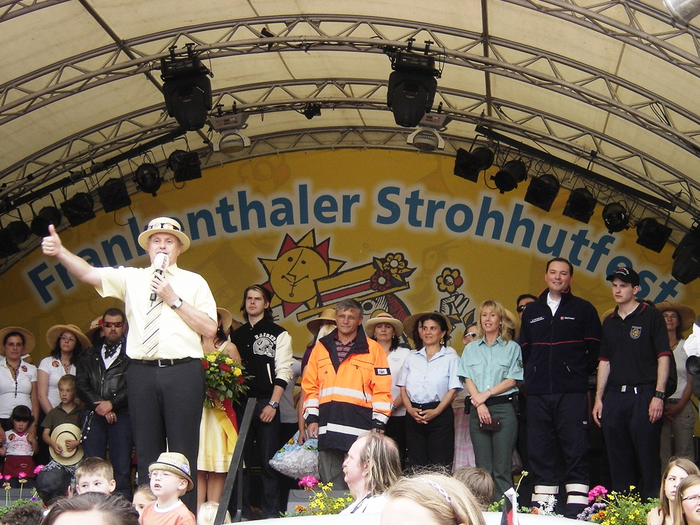 The mayor of Frankenthal Theo Wieder opens the "straw hat festival 2009".